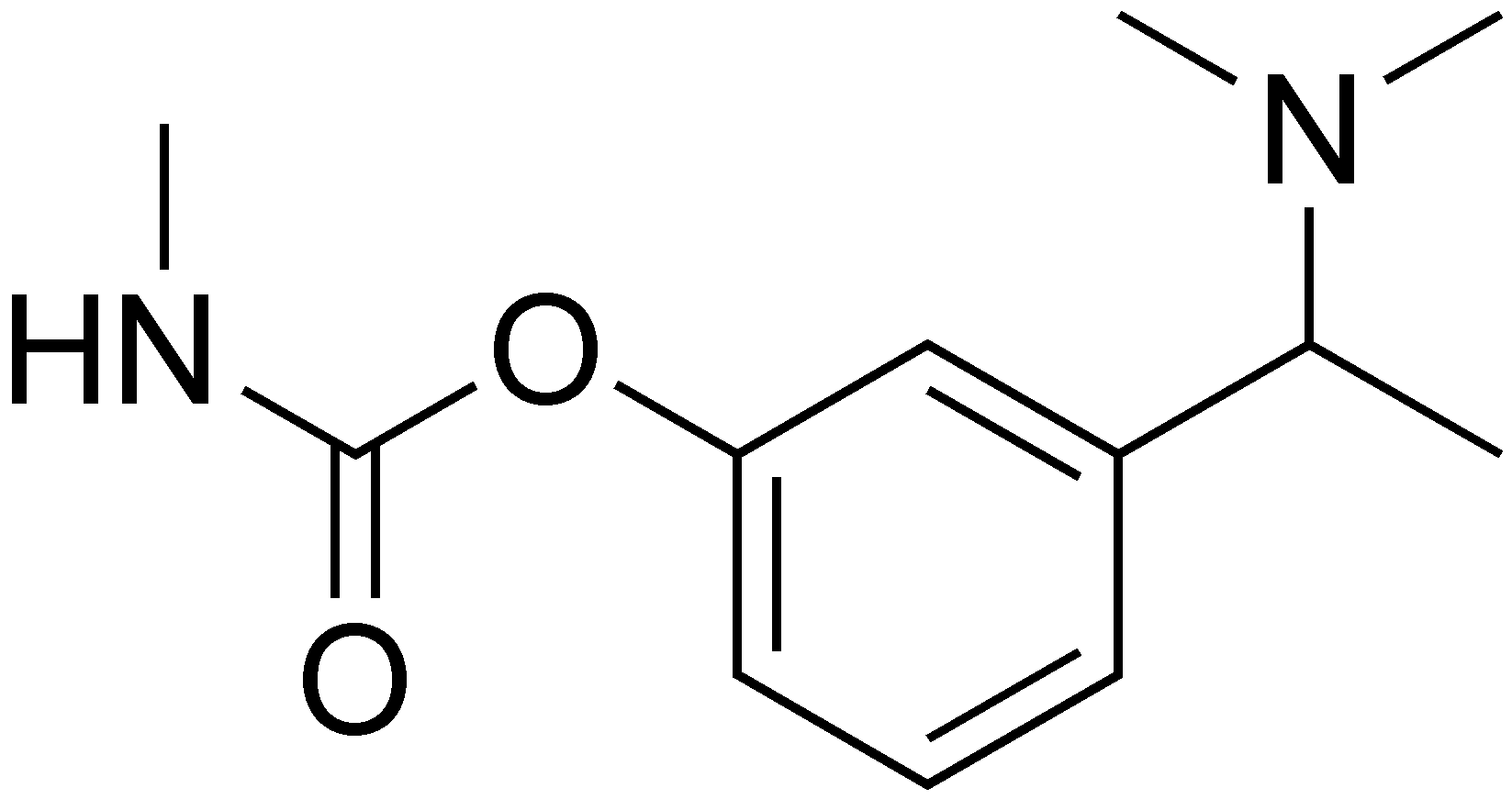 Chemical structure of Miotine